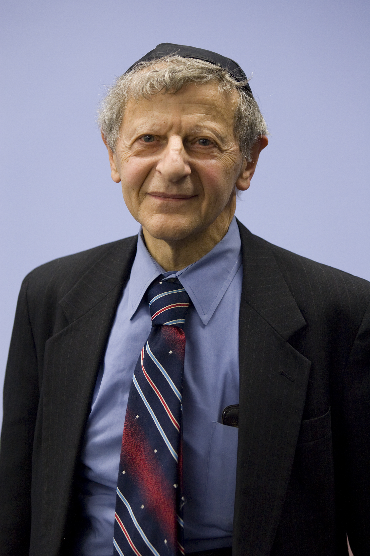 Provided by Matt Yaniv of Yeshiva University